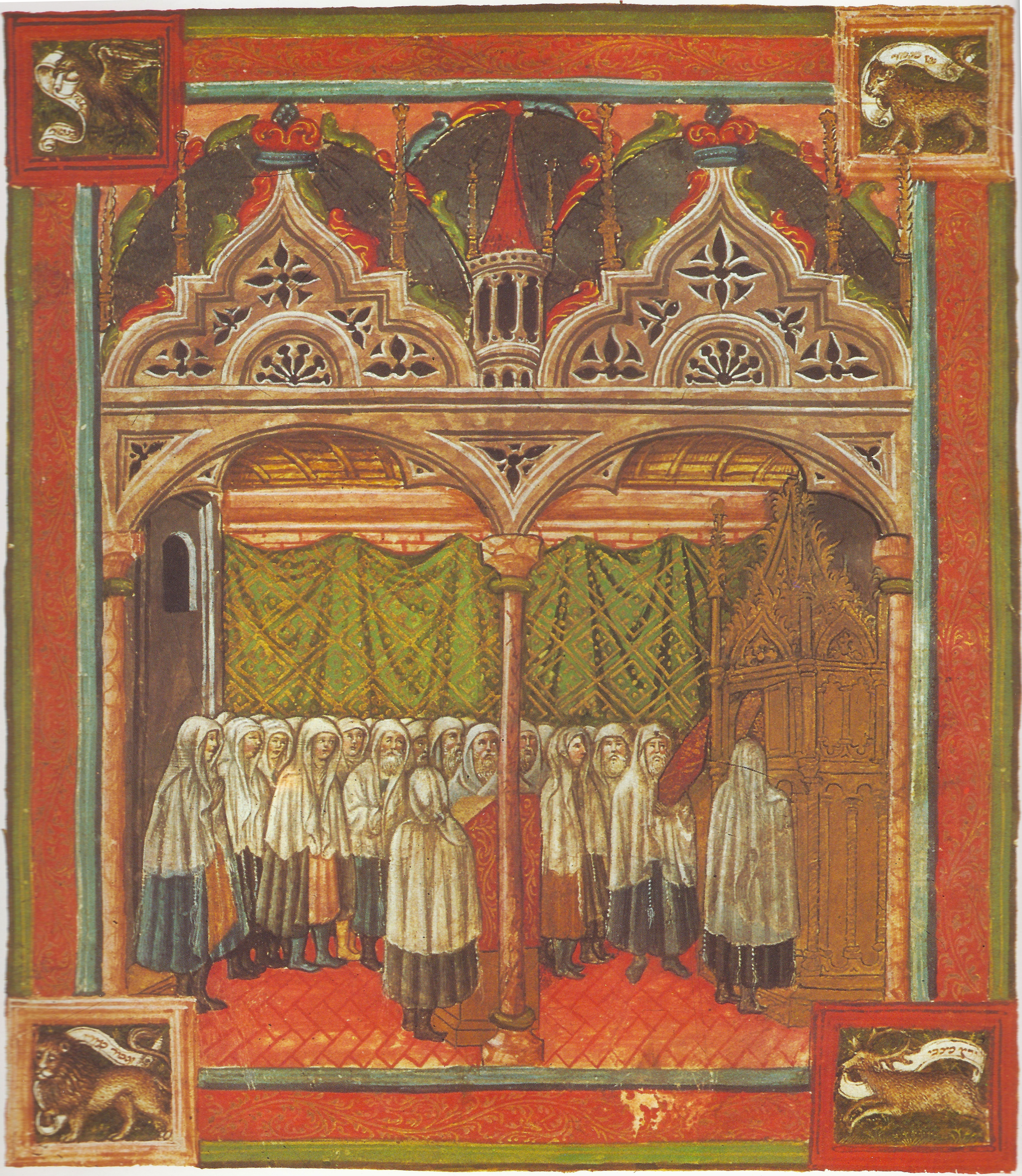 Jews praying in a synagogue, in an illuminated manuscript from Mantua, Italy.